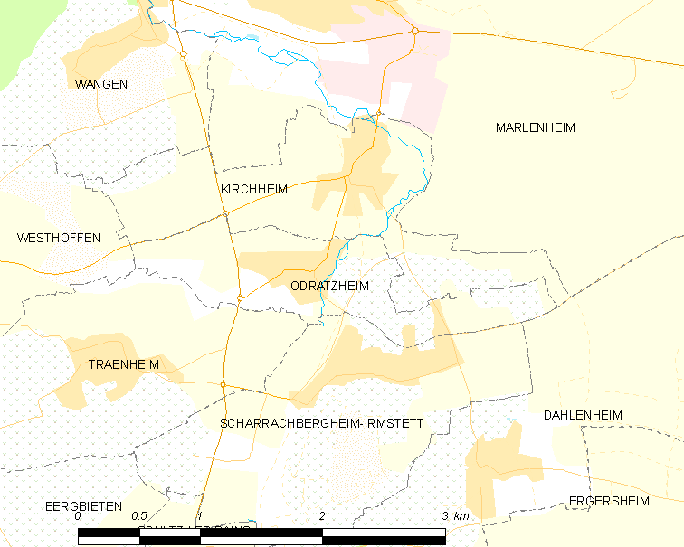 Map of French municipality